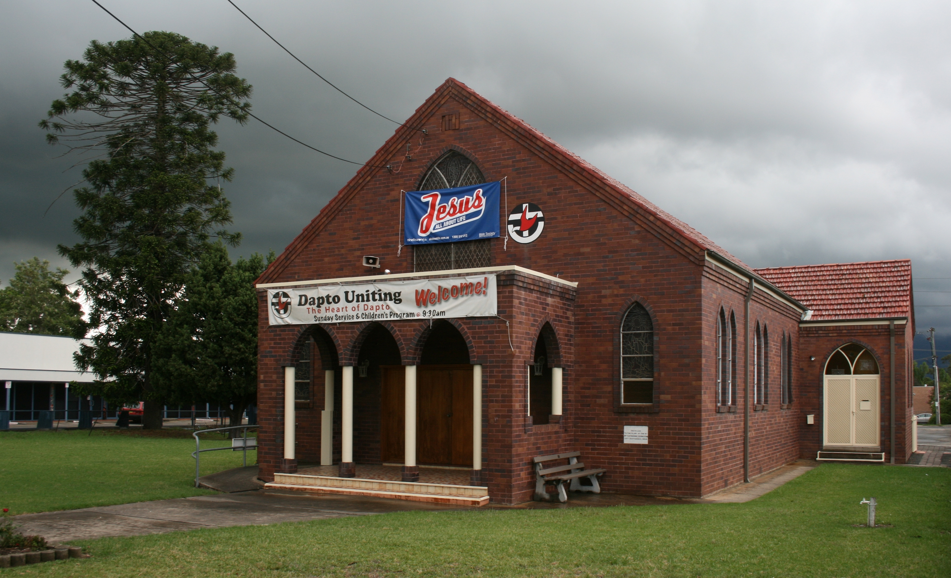 St. Andrews Uniting Church in Dapto, New South Wales (NSW), Australia.